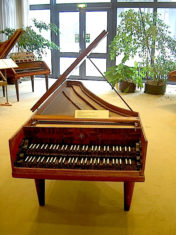 The Bach harpsichord in the MIM Berlin, catalog number 5614. Possibly formerly owned by Wilhelm Friedemann Bach, who is supposed to have inherited it from his father J.S. Bach. There is no proof for this story however.